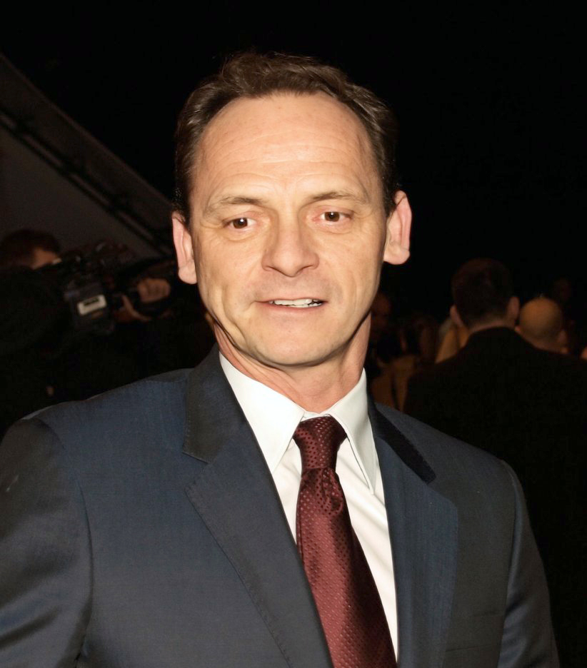 British actor Perry Fenwick at the National T.V. Awards 2010 - pictured by Ian Smith